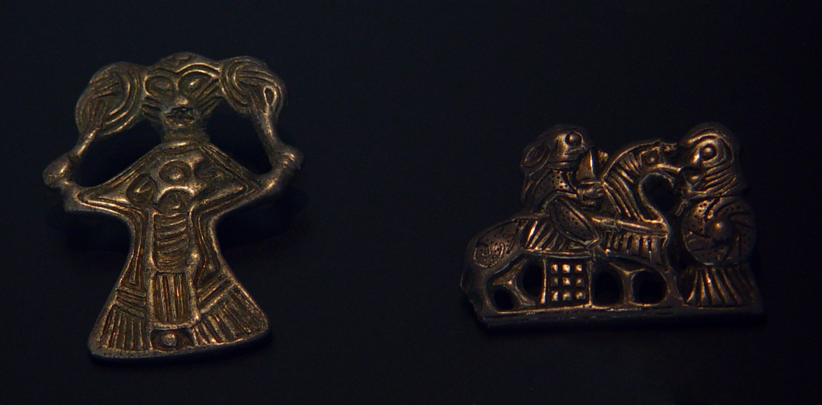 Two silver objects housed at the National Museum of Denmark. On the left side, a figure seems to reach up and touch her stylized hair. On the right, a figure on a horse confronts a figure with a shield. The caption provided by the National Museum of Denmark says that the objects are "silver pendants in the form of Valkyries." The white blur towards the bottom of the image is a light above the glass case—the glass case housing the objects sits horizontally, and to photograph them I was in a pretty sprawled and hunched over position (much to the amusement of onlookers, I'm sure). Due to its placement, I was unable to avoid the light blur anymore than this at the time. Skadinaujo (talk · contribs) edited away the white blur with Photoshop.